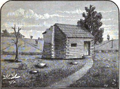 Artist's drawing of the Washington County, Pennsylvania "log college" operated by John McMillan (pastor), later merged into Jefferson Academy, Jefferson College, and Washington & Jefferson College